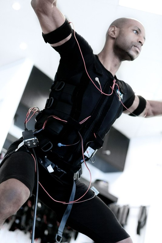 Fitness training with electrical stimulation